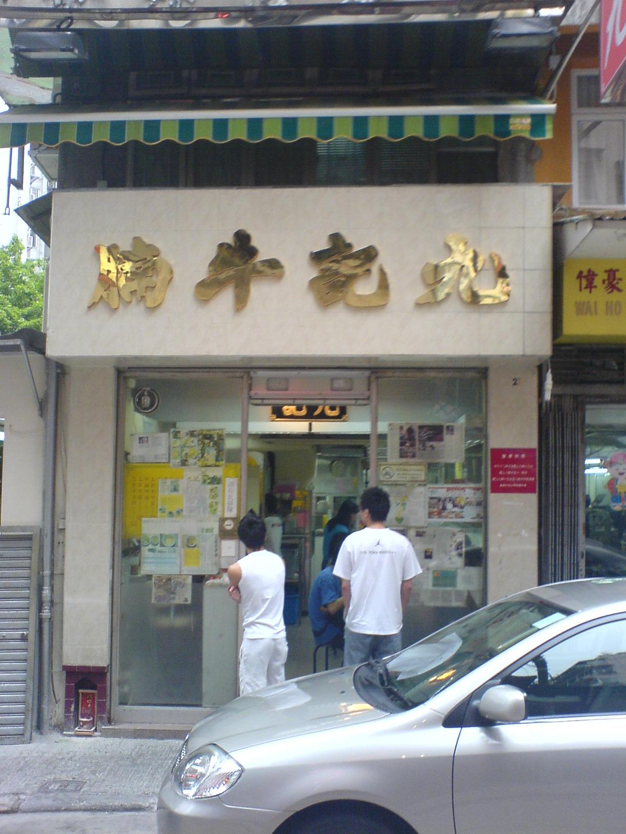 A picture taken by me.